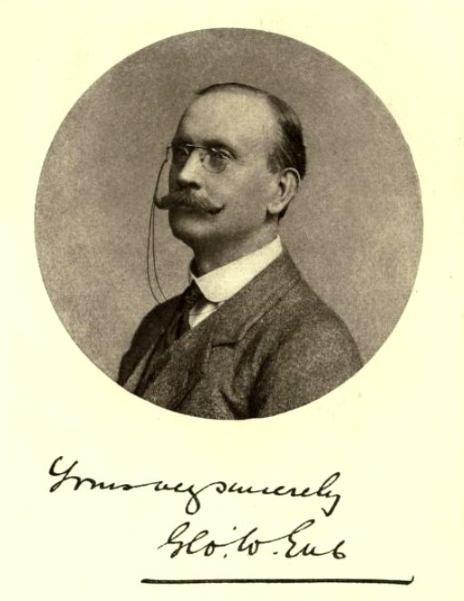 Extracted from "A descriptive catalogue of the bookplates designed and etched by George W. Eve, R.E., with a brief notice of his career as an artist and a few comments upon some of his other work." American Bookplate Society, Kansas City, 1916.